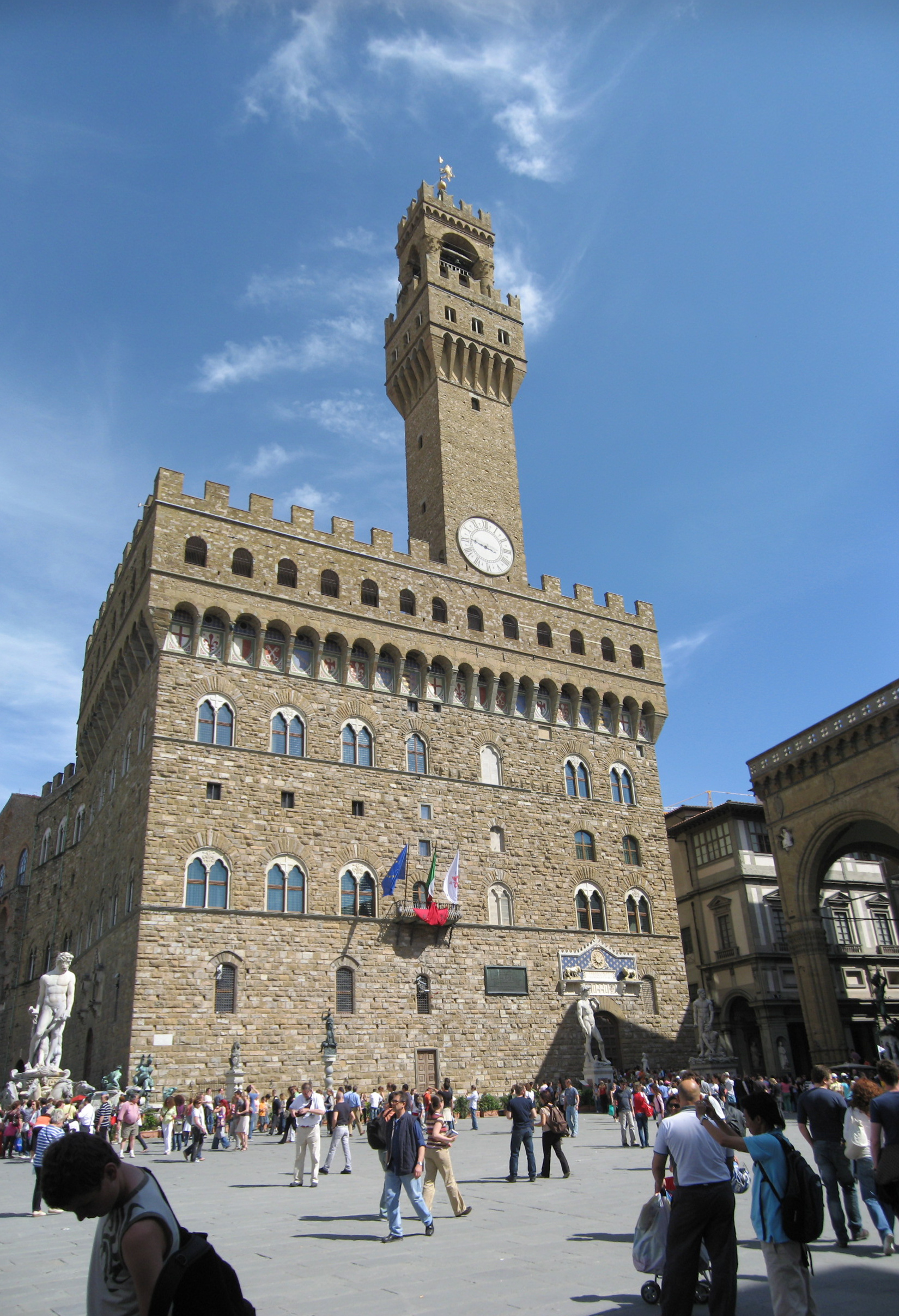 Palazzo Vecchio, Firenze.